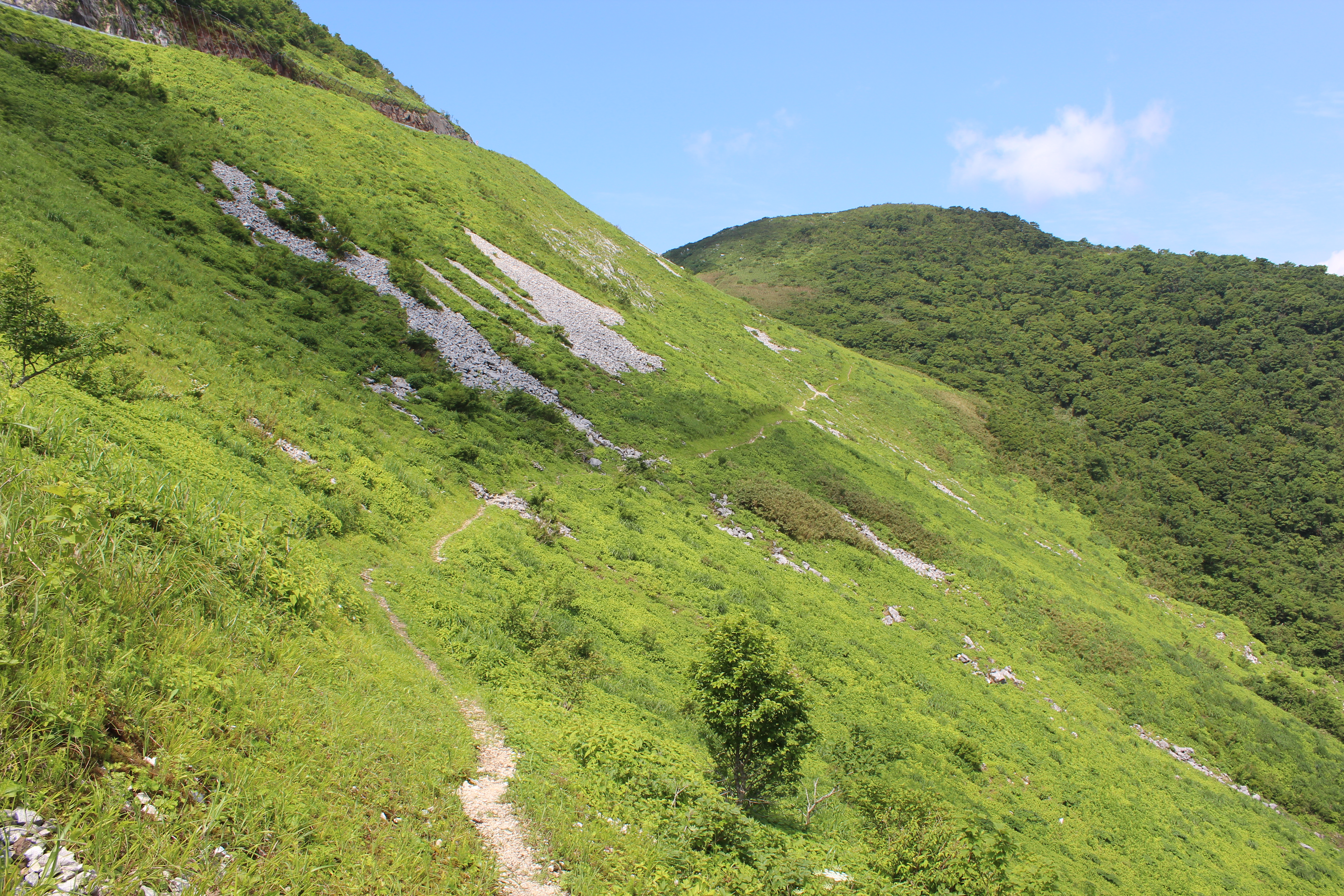 Hiking trail for Shizumagahara in Mount Ibuki,, in Gifu prefecture, Japan.